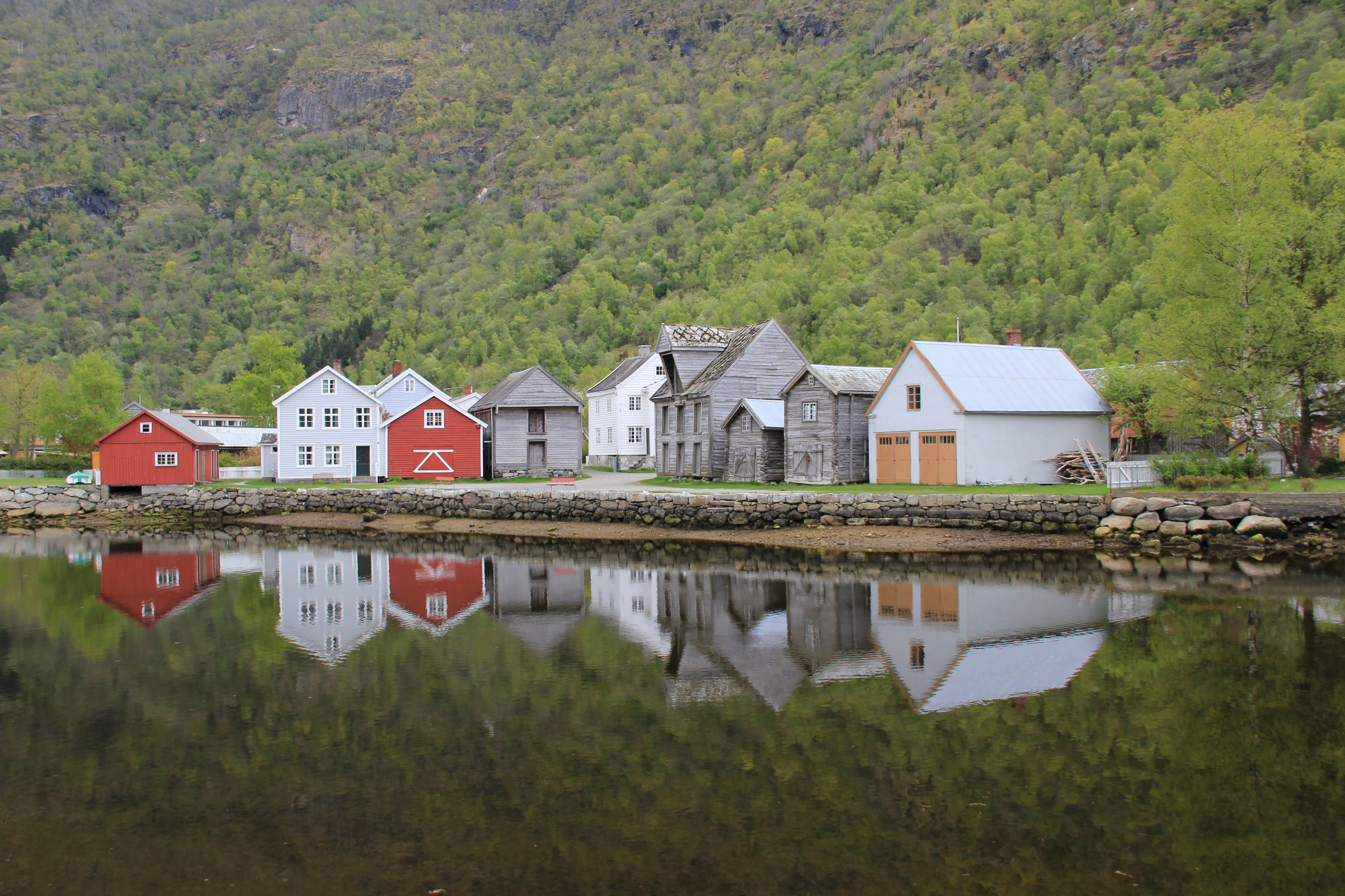 Lærdalsøyri, Lærdal, Norway